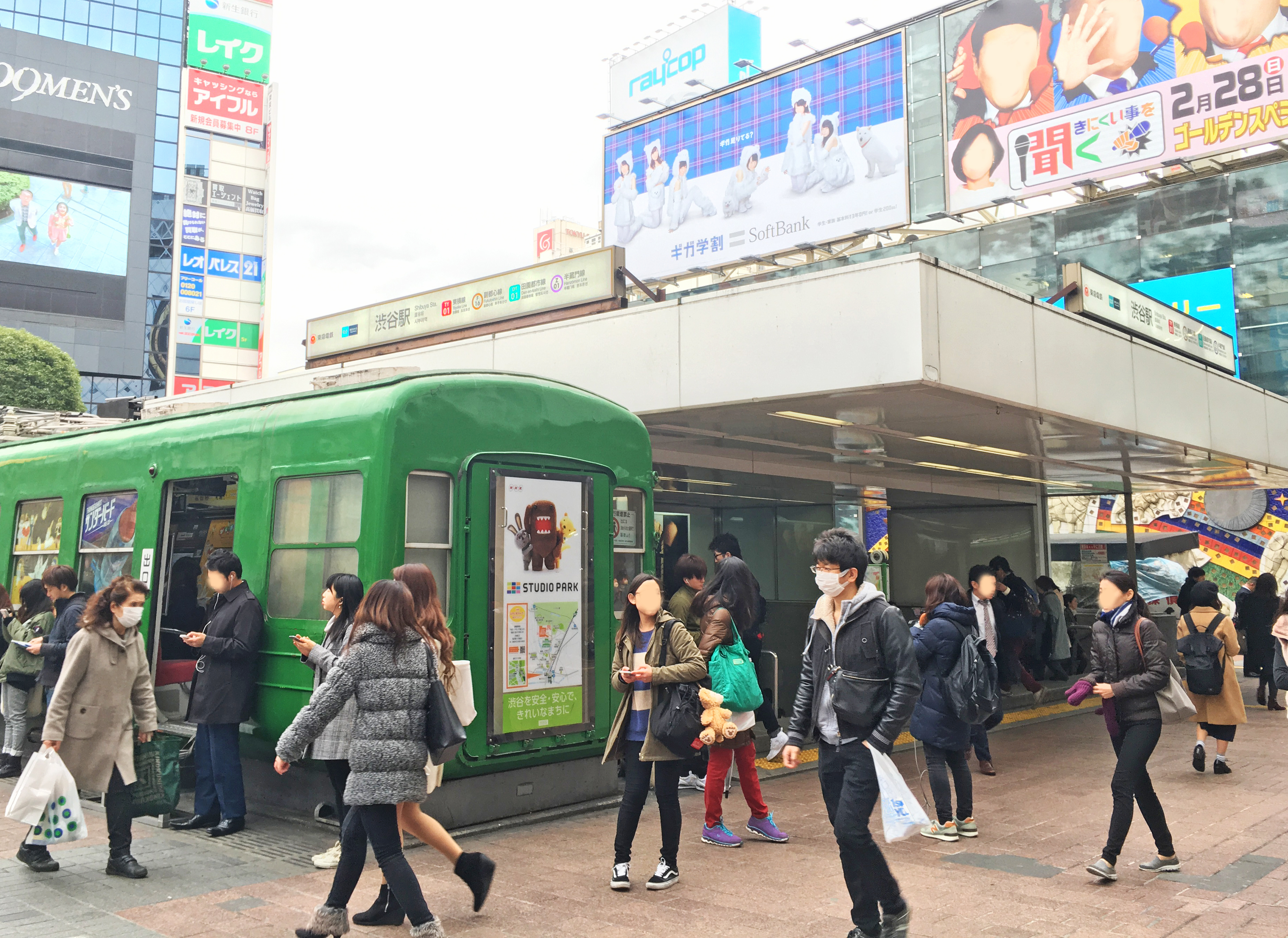 Hachiko Exit for subway lines